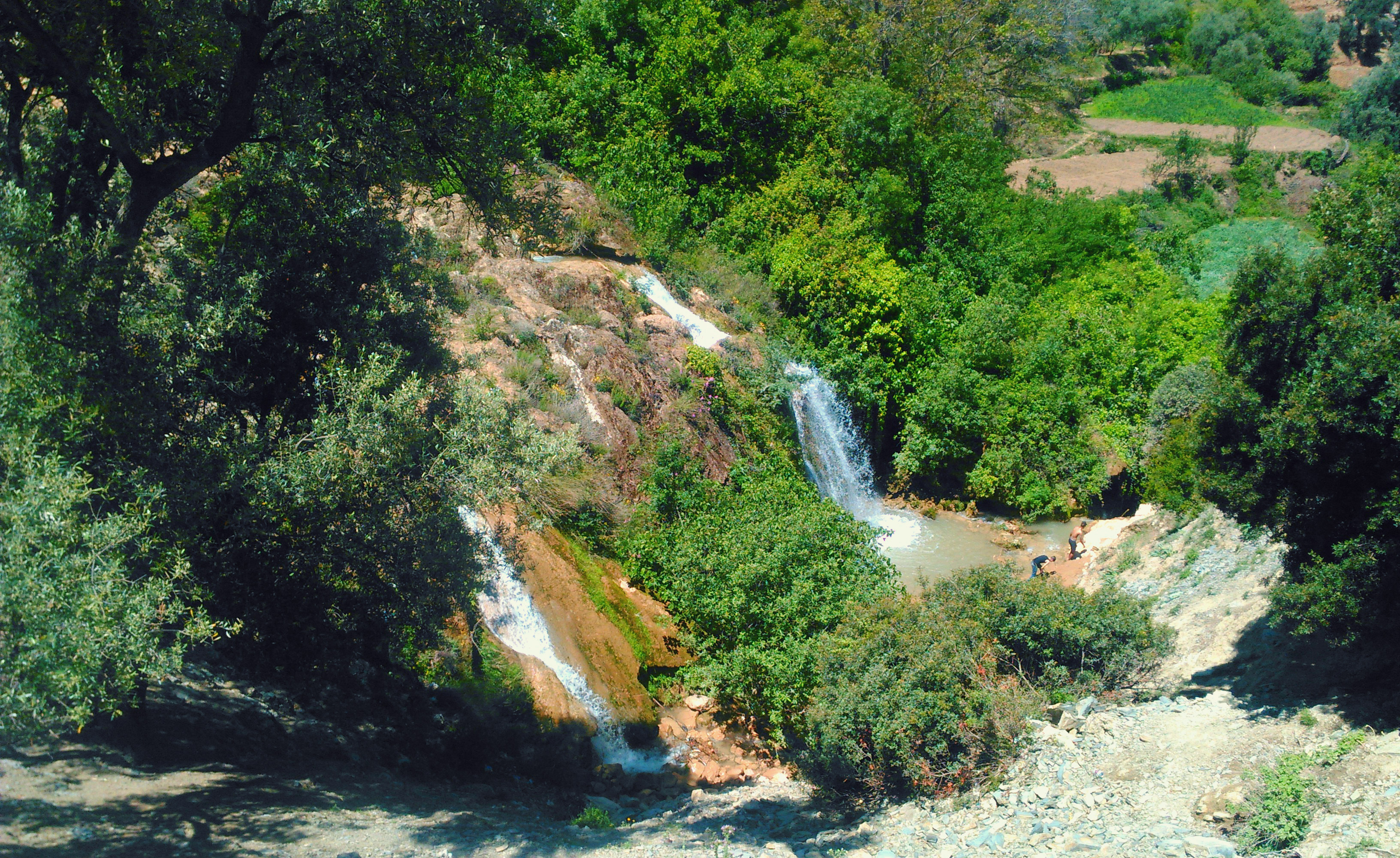 one of the most beautiful waterfalls in ras el ma . its on the road between ras el ma and taza city